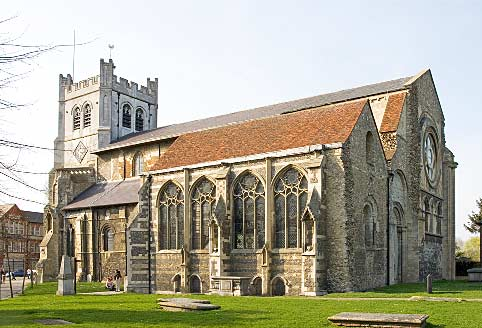 Waltham Abbey Church. Author Robert Stainforth